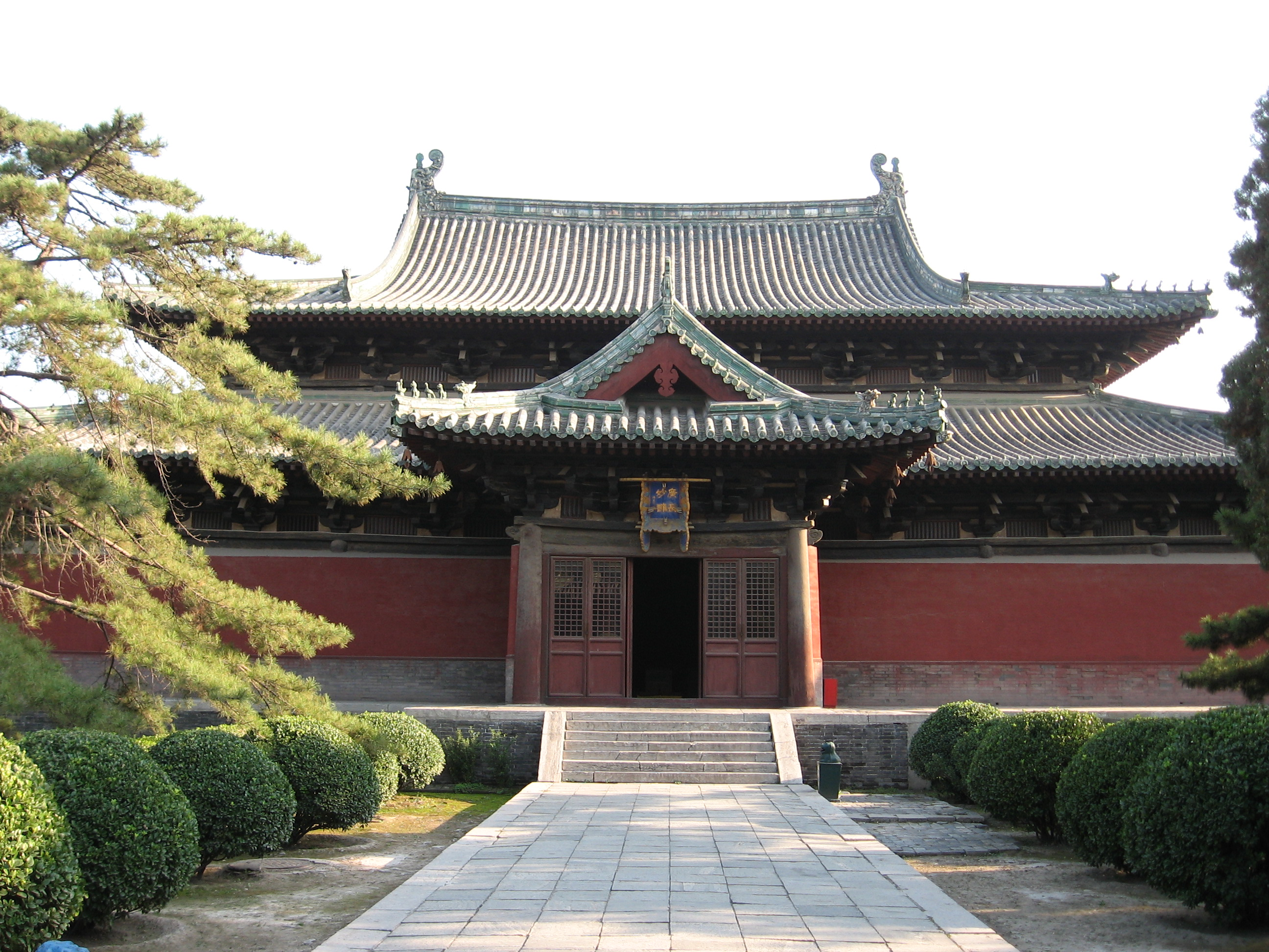 The Manichaean Hall of Longxing temple in Zhengding Hebei,China.